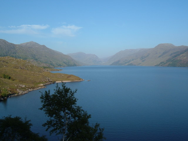 Loch Morar - View eastward from Sron Ghaothar. Such a beautiful evening and despite a long day time to sit a savour that wonderful view.